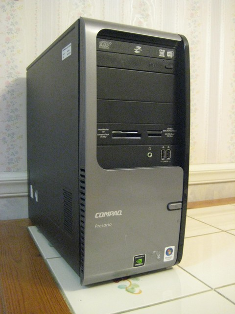 This is a Compaq Presario SR5130NX of mine.